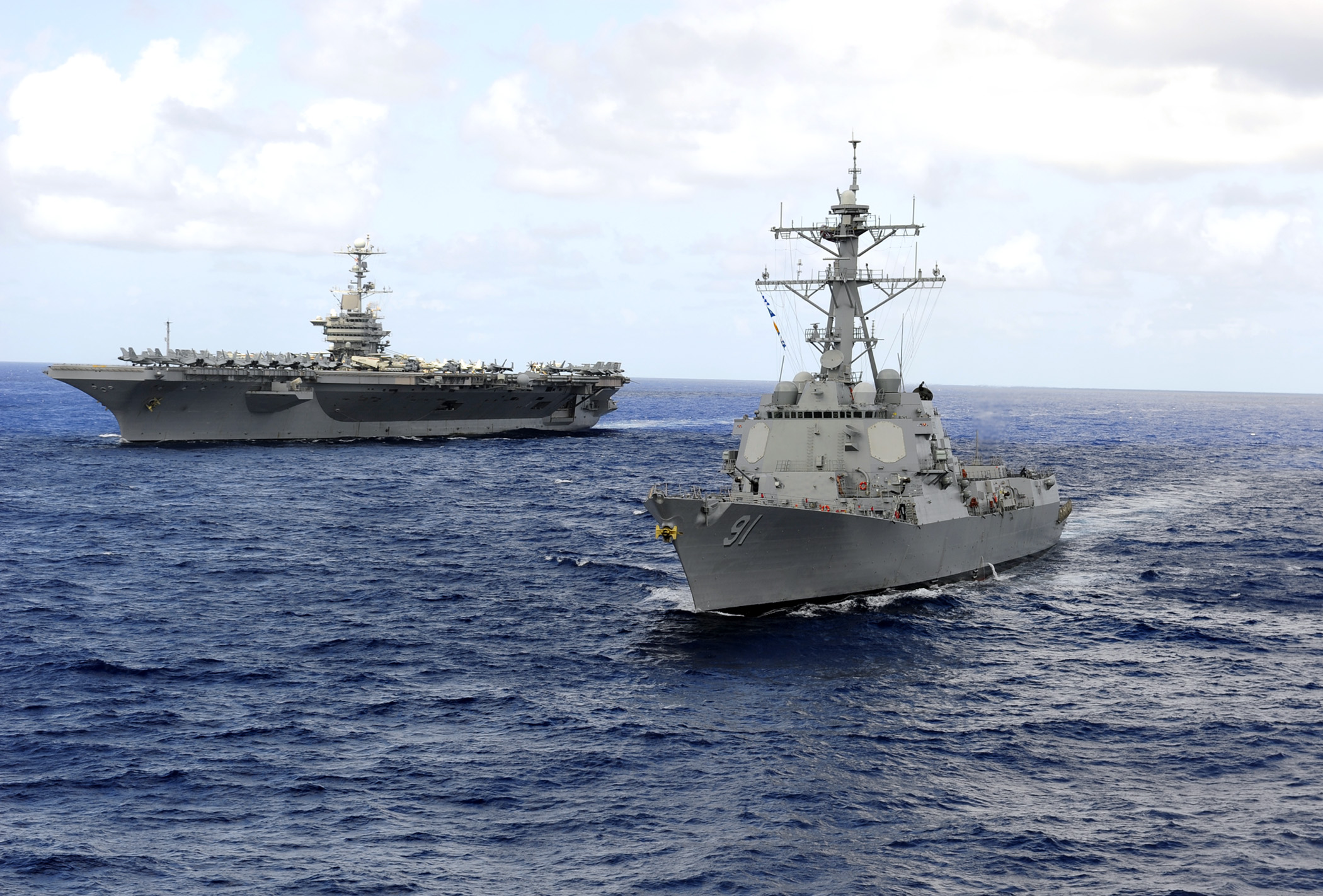 PACIFIC OCEAN (Aug. 16, 2011) The Arleigh Burke-class guided-missile destroyer USS Pickney (DDG 91), right, and the Nimitz-class aircraft carrier USS John C. Stennis (CVN 74) are underway in the Pacific Ocean. The John C. Stennis Carrier Strike Group is on a scheduled deployment to the western Pacific Ocean and the Arabian Gulf. (U.S. Navy photo by Mass Communication Specialist 2nd Class Walter M. Wayman/Released)